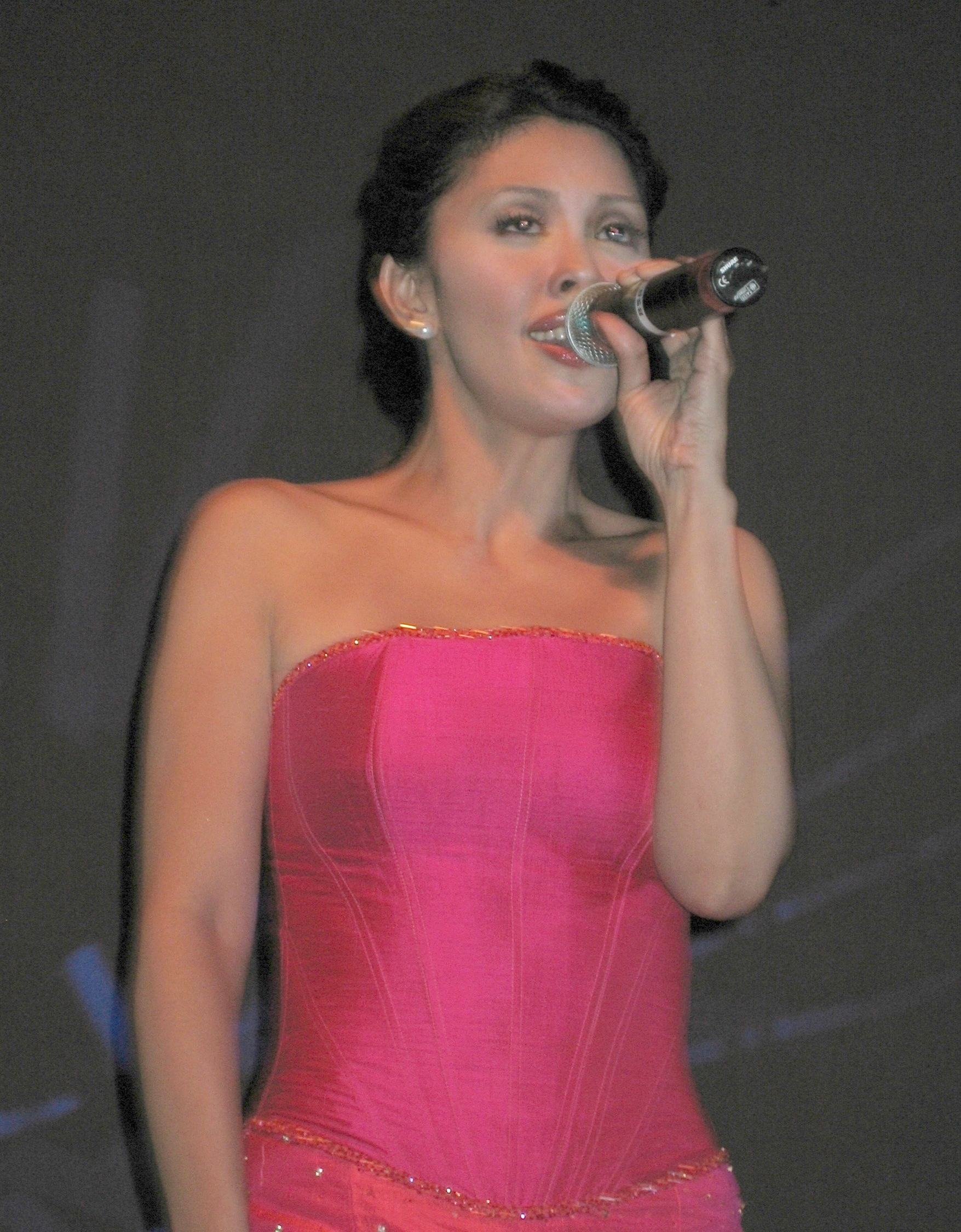 Pops Fernandez, at a concert in Copenhagen, October 15, 2005.